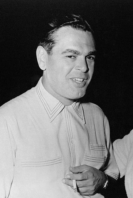 American producer Pandro Samuel Berman on the set of the film Battle Circus. USA, 1953.